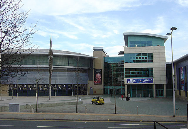 Nottingham Arena and Ice Centre